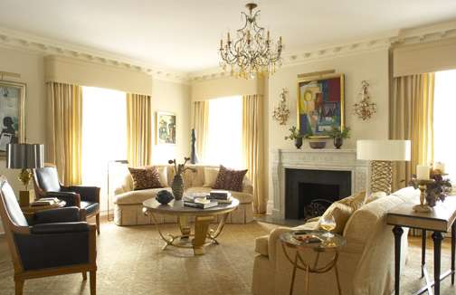 Barry Goralnick